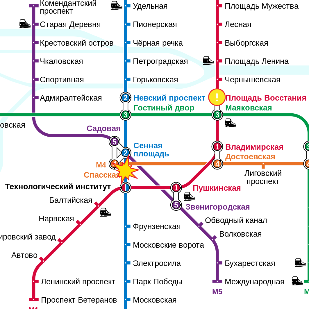 Explosion in the St. Petersburg Metro on April 3, 2017 in the tunnel between the stations "Sennaya Ploshchad" and "Tehnologichesky Institut". An exclamation sign noted an unexploded bomb at the station "Ploshchad Vosstaniya".